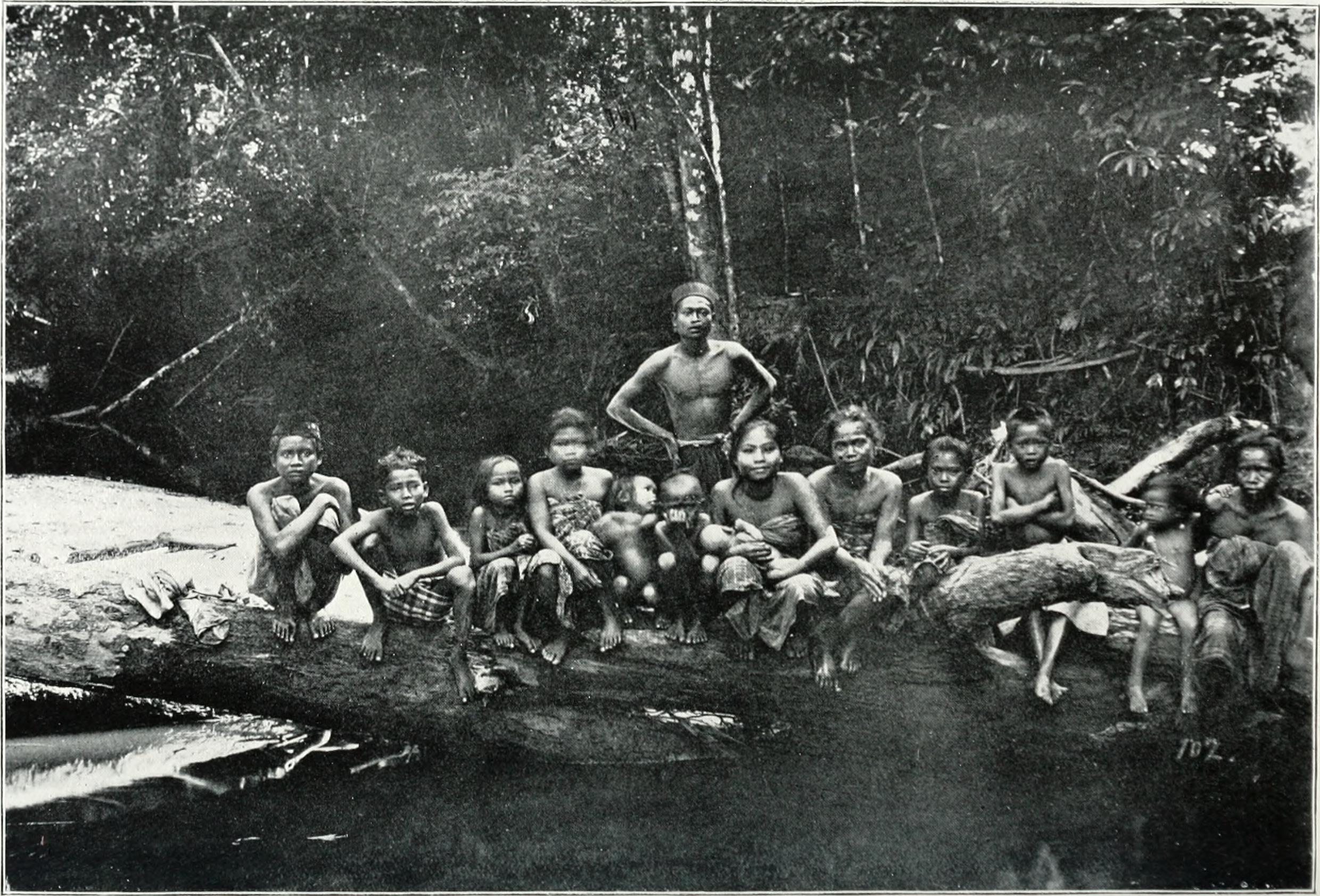 Title: Pagan races of the Malay Peninsula Year: 1906 (1900s) Authors: Skeat, Walter William, 1866- Blagden, Charles Otto, 1864-1949 Subjects: Ethnology -- Malay Peninsula Malays (Asian people) Malay Peninsula -- Social life and customs Malay Peninsula -- Religion Malay Peninsula -- Aboriginal dialects Publisher: London : Macmillan and Co., limited (etc., etc.) Text Appearing Before Image: 817 3 K (QHOR. Text Appearing After Image: '